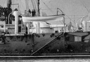 Photograph showing aft BL 9.2 inch Mk VI gun on British cruiser HMS Gibraltar. This is a clip from File:HMSgib.jpg